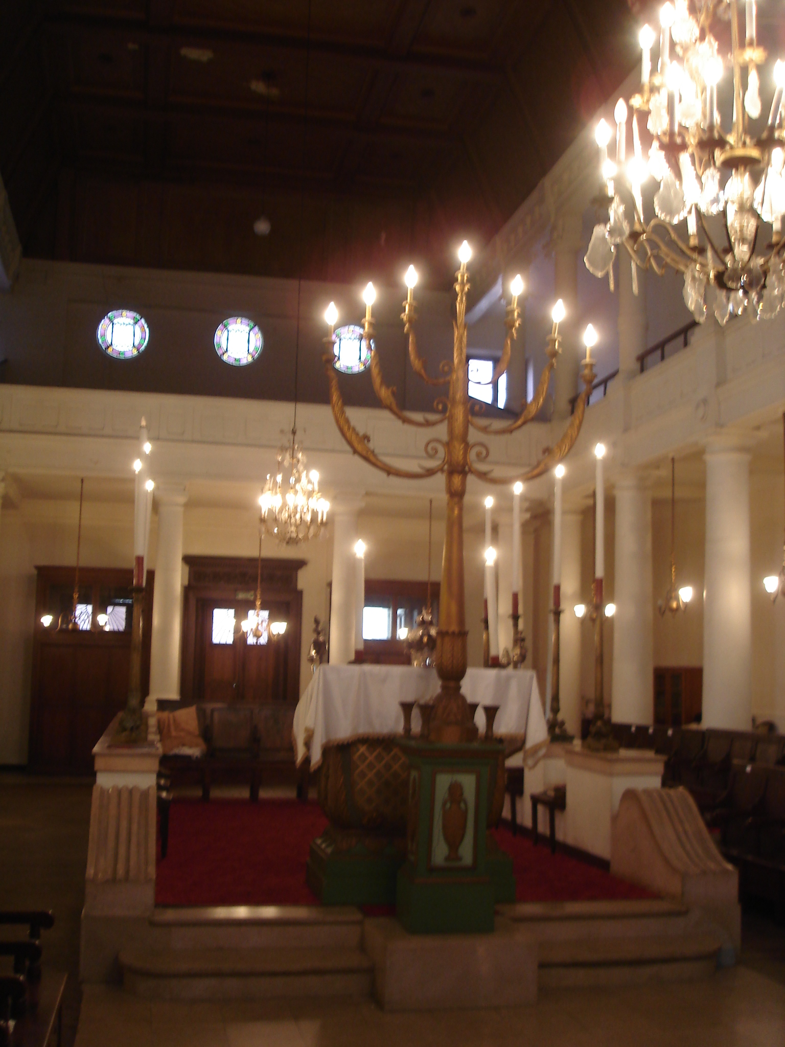 Synagogue of Bayonne (France) - The nside